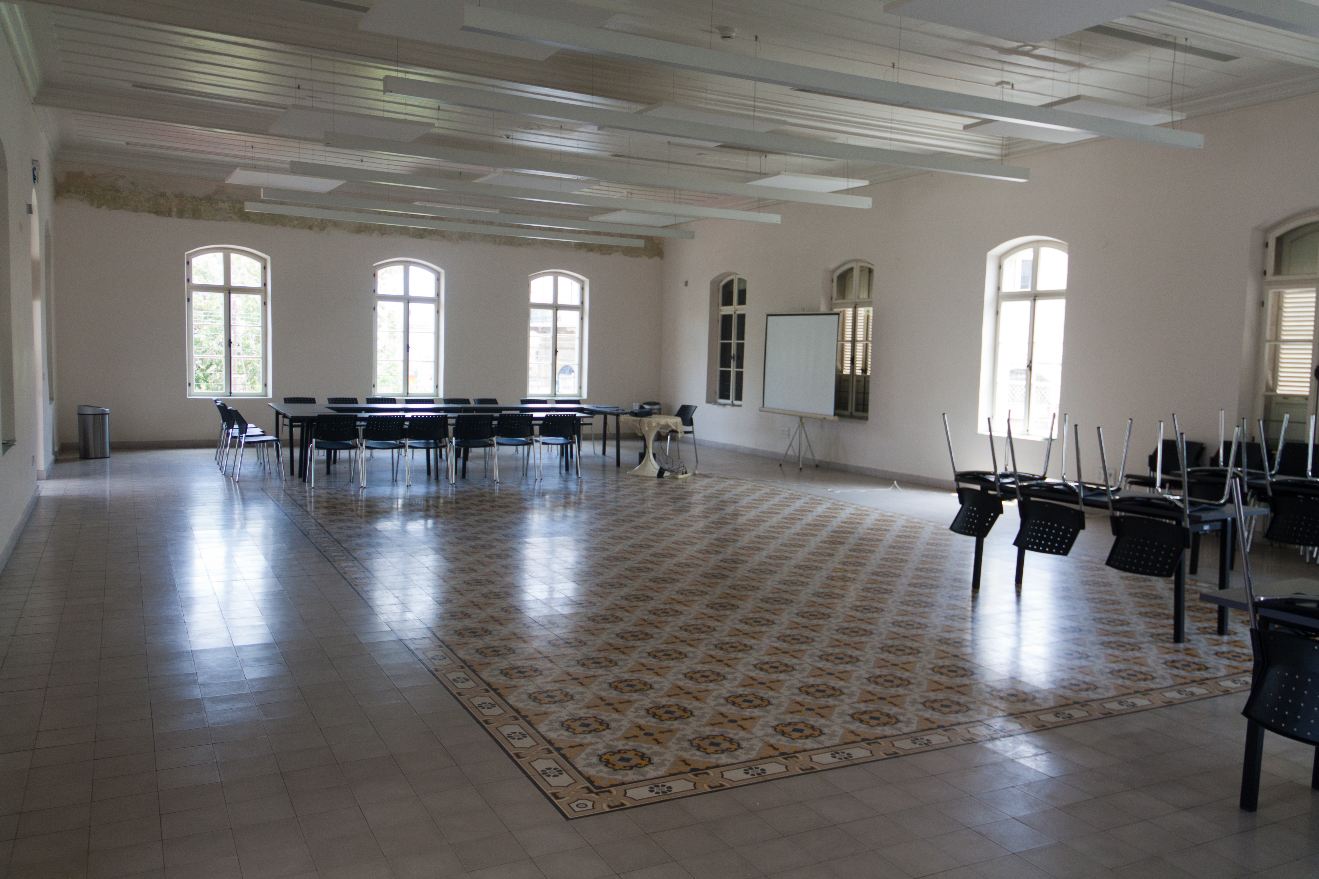 former cinema of Cafe Lorenz